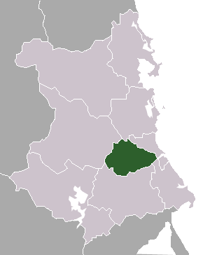 Location of Phu Hoa in Phu Yen Province